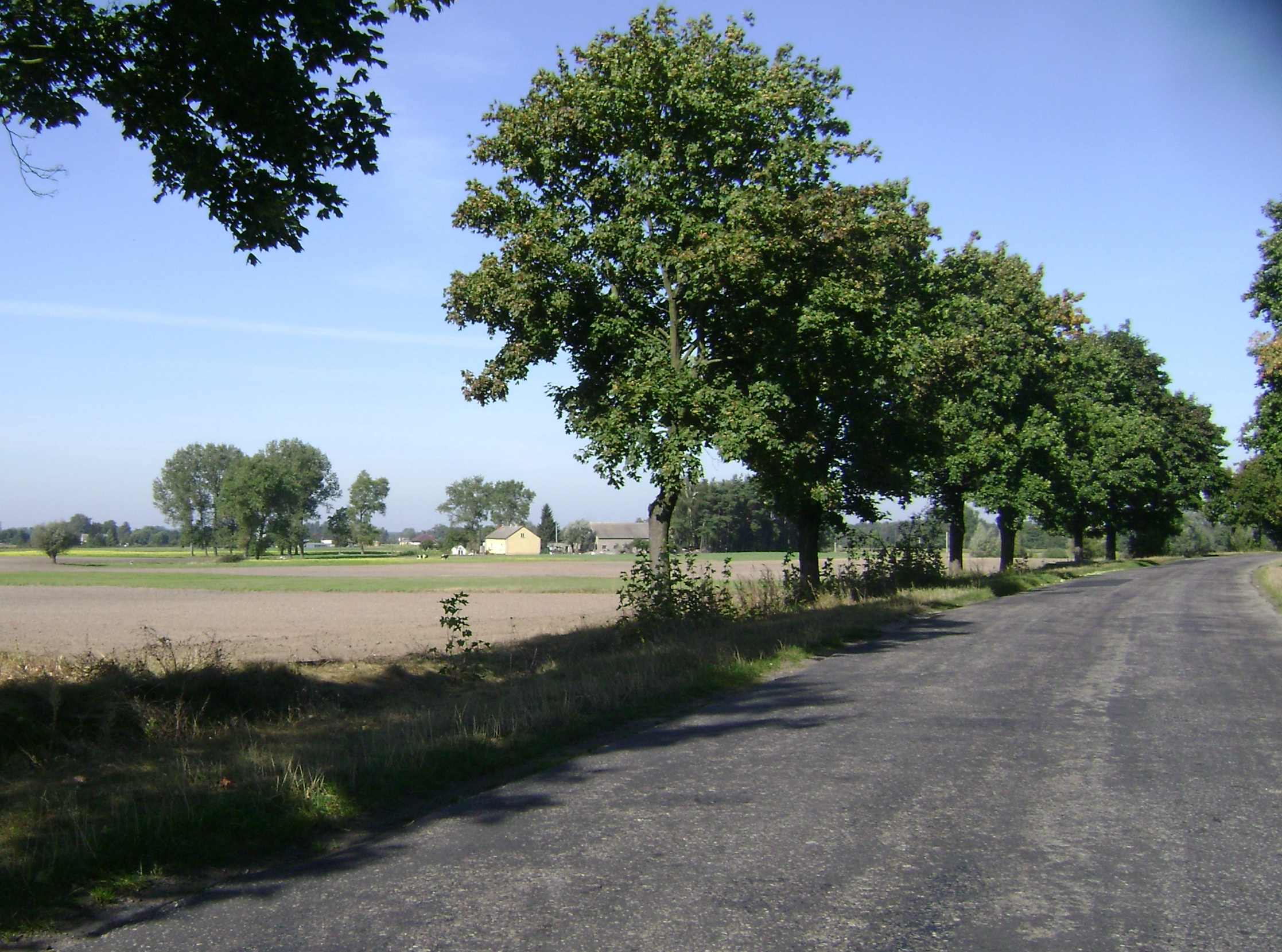 Szczepanki, Voivodeship road 558